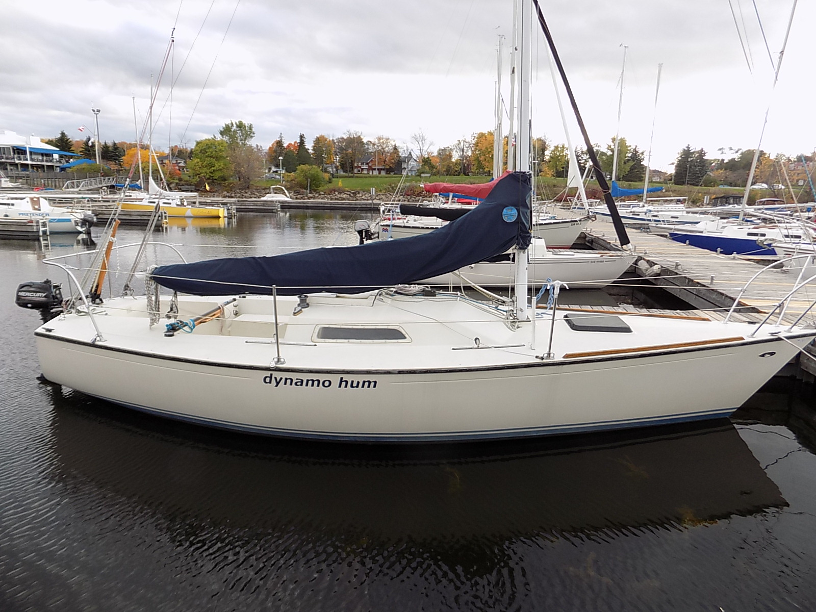 A Kirby 25 sailboat named Dynamo Hum.